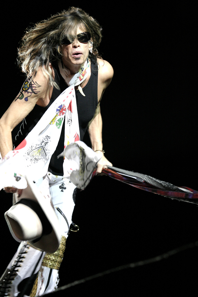 Aerosmith - Steven_Tyler